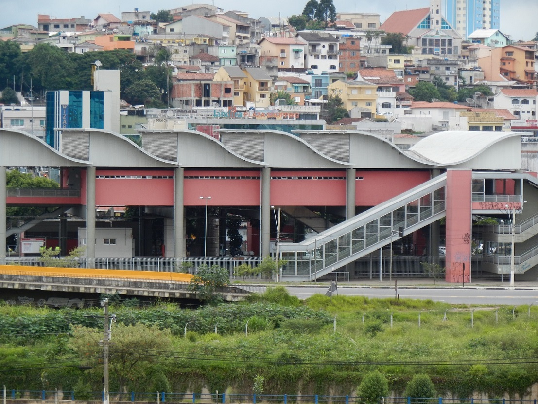 A view of the Jandira Station